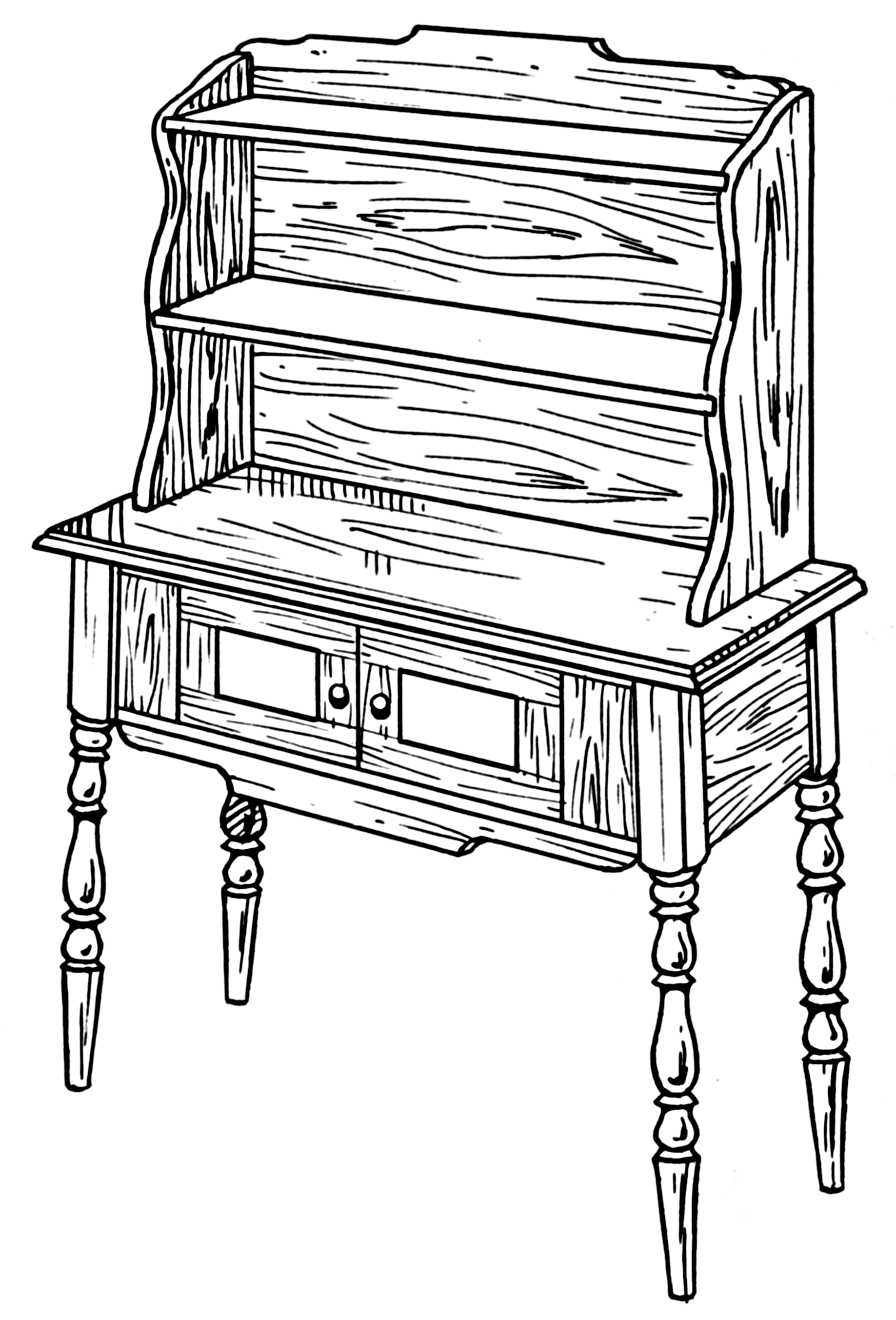 Illustration of a dresser.